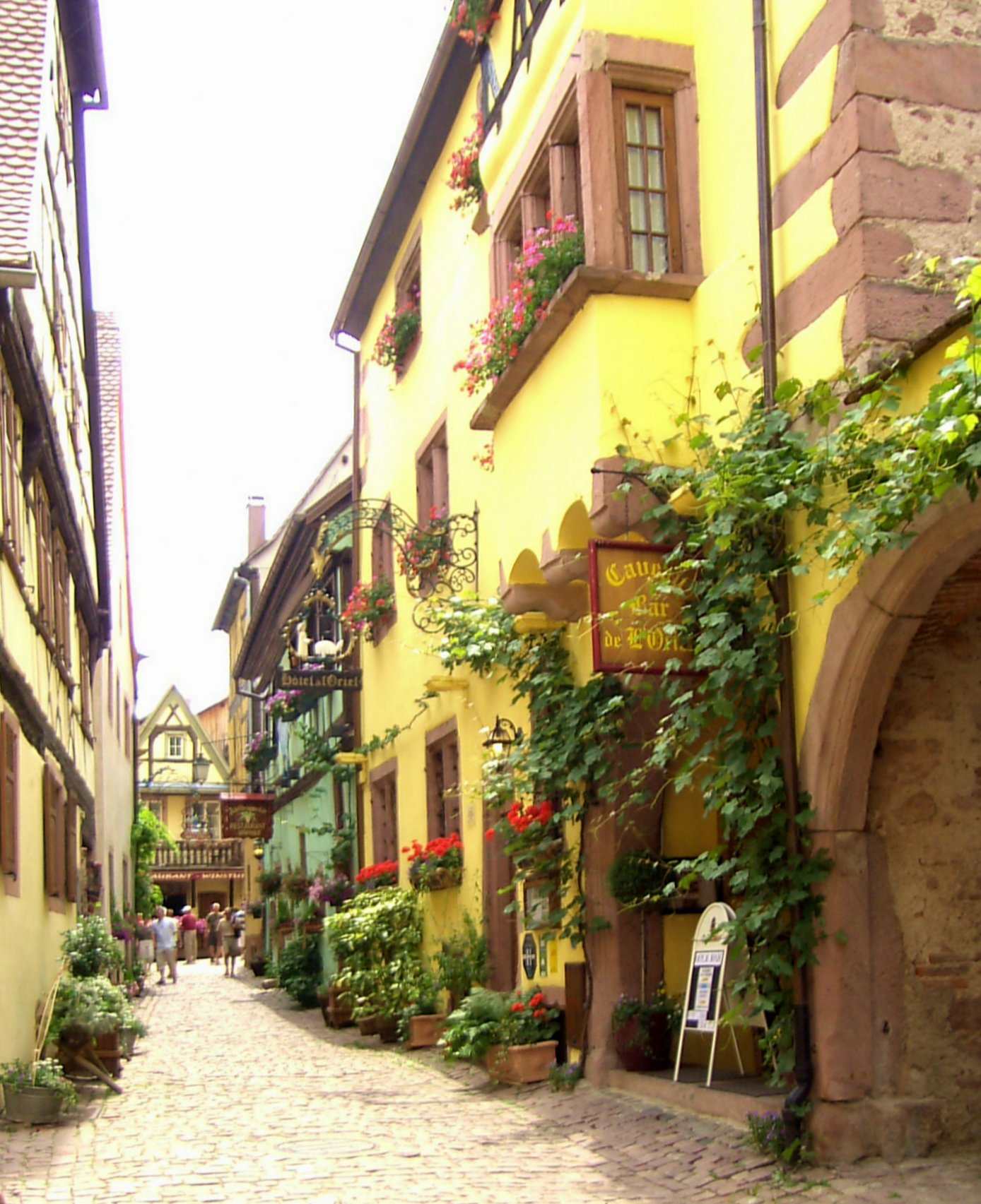 Riquewihr, Rue des Écuries, one of the most beautiful old towns in France (16th century)